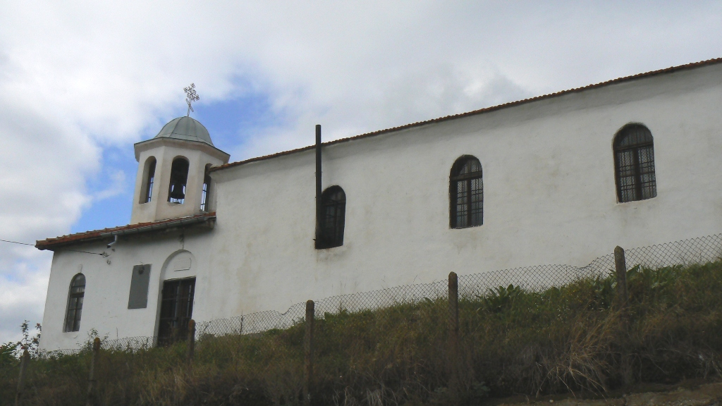 Church "Saint Nikola" in village Zlokuchene, District Sofia, Bulgaria